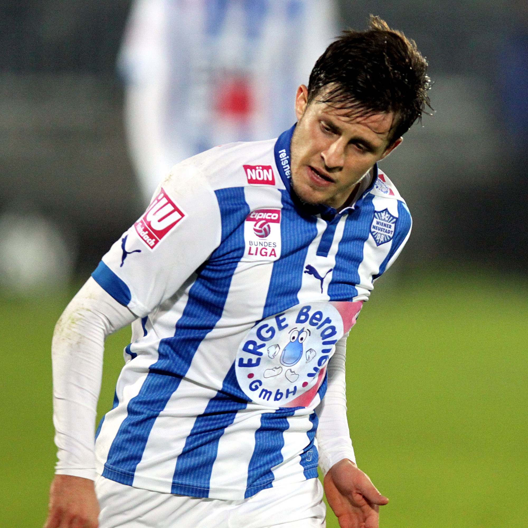 2014–15 Austrian Football Bundesliga: SC Wiener Neustadt vs. Wolfsberger AC (2:0 / 0:0) at 2014-11-22 in the Stadion Wiener Neustadt. – The photo shows en: (SC Wiener Neustadt/Wolfsberger AC). The making of this work was supported by Wikimedia Austria. For other files made with the support of Wikimedia Austria, please see the category Supported by Wikimedia Österreich.